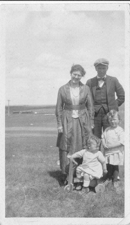 Altario about 1918